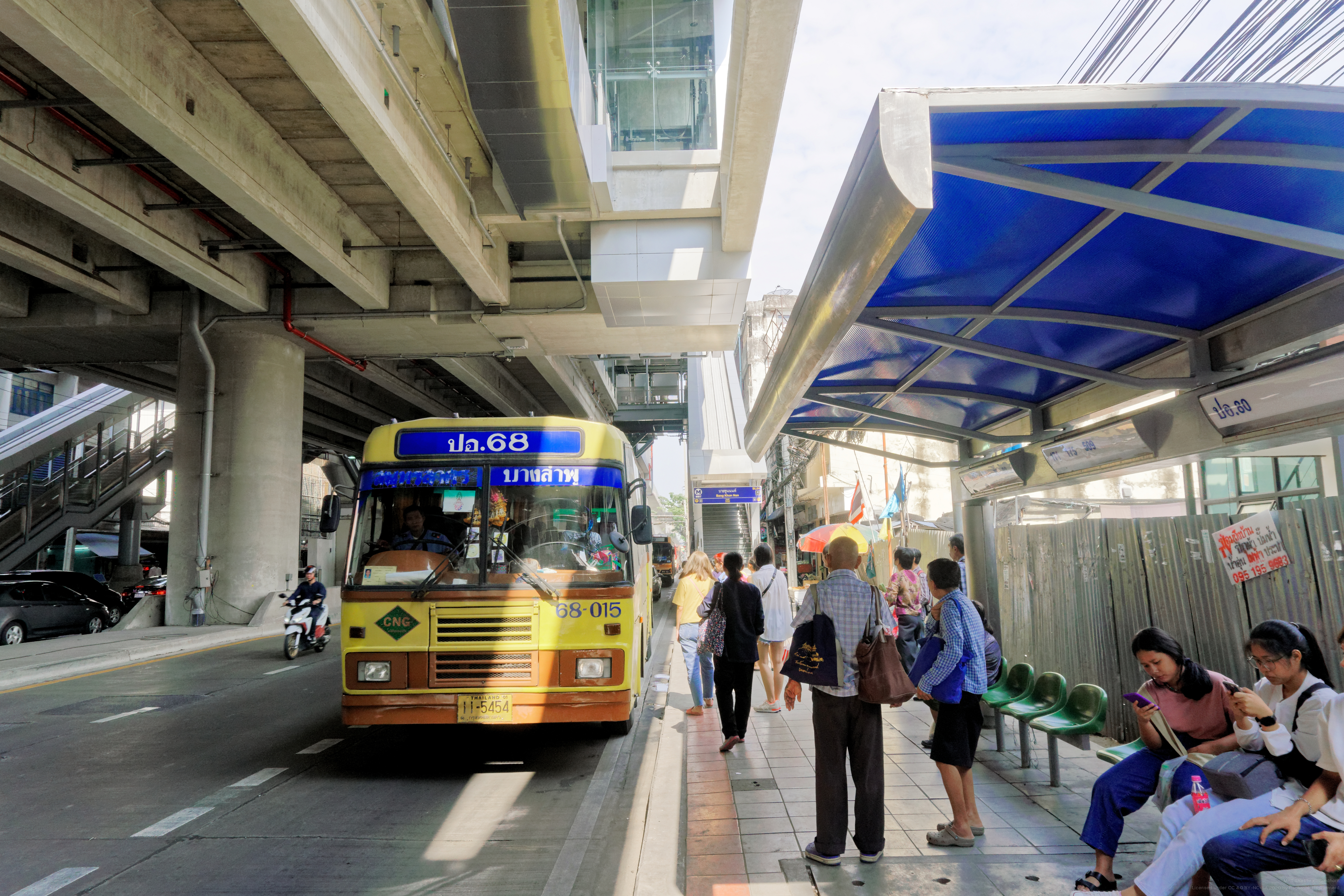 MRT Bang Khun Non – Bus stop with line 68 air conditioned, private bus